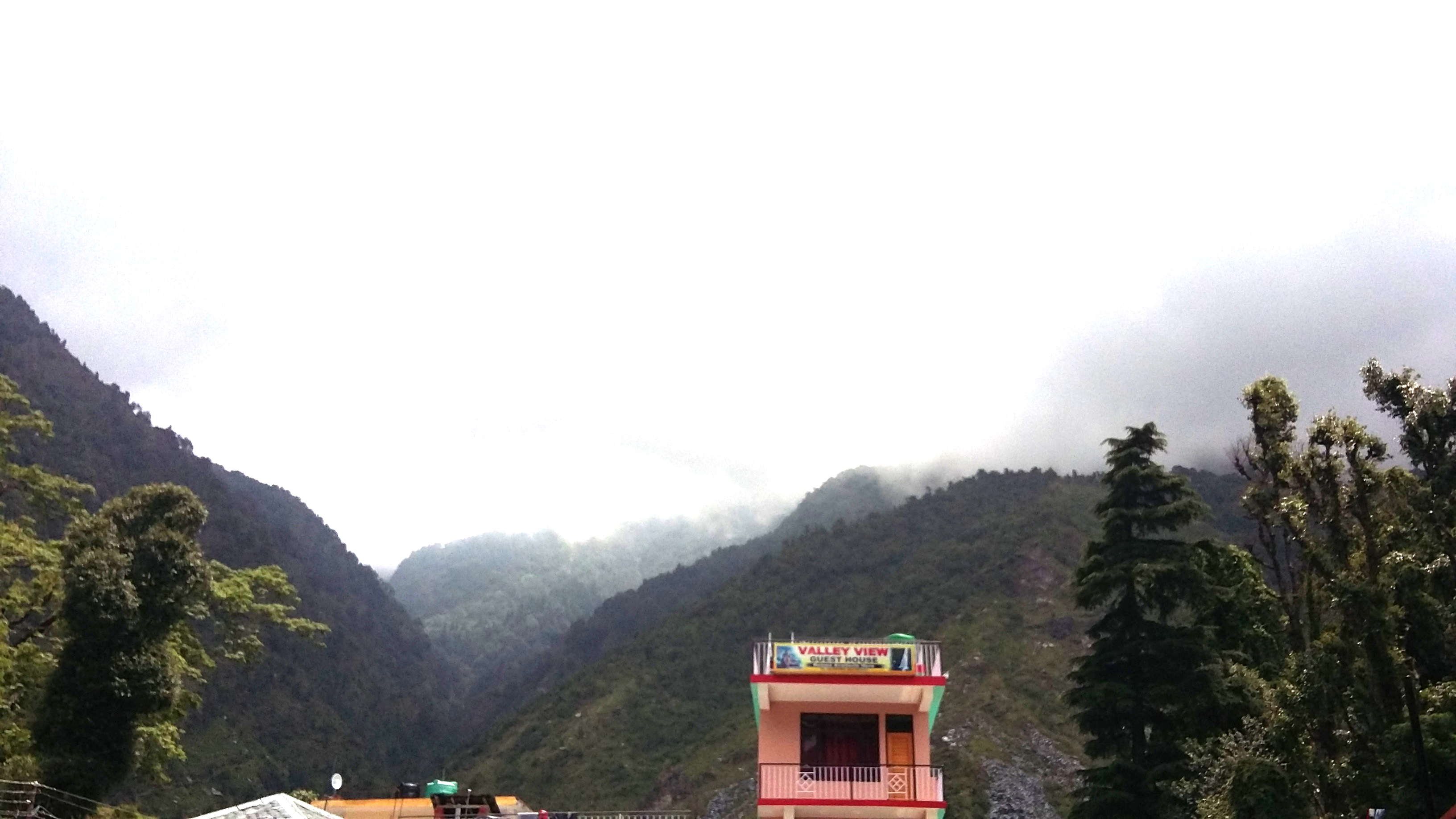 Mcleod Ganj ਪੰਜਾਬੀ: ਮਕਲੋਡਗੰਜ